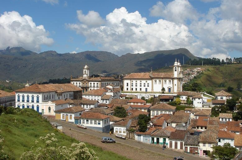 Ouro Preto, Brazil